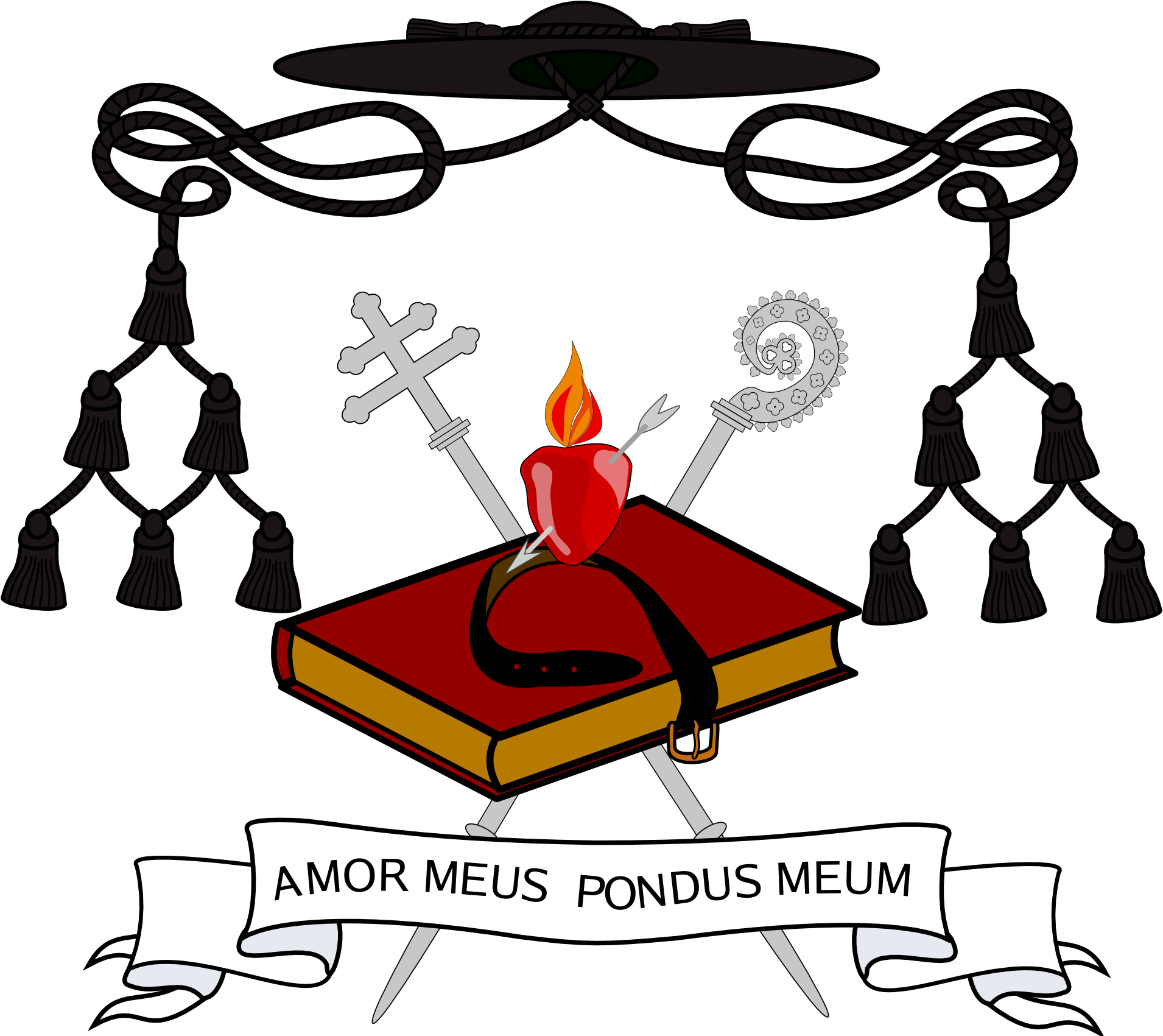 order of St. Augustin coat of arms